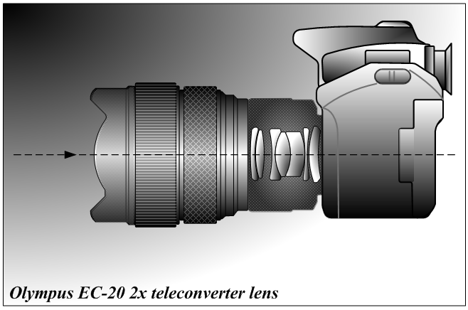 Olympus EC-20 2x Teleconverter lens.